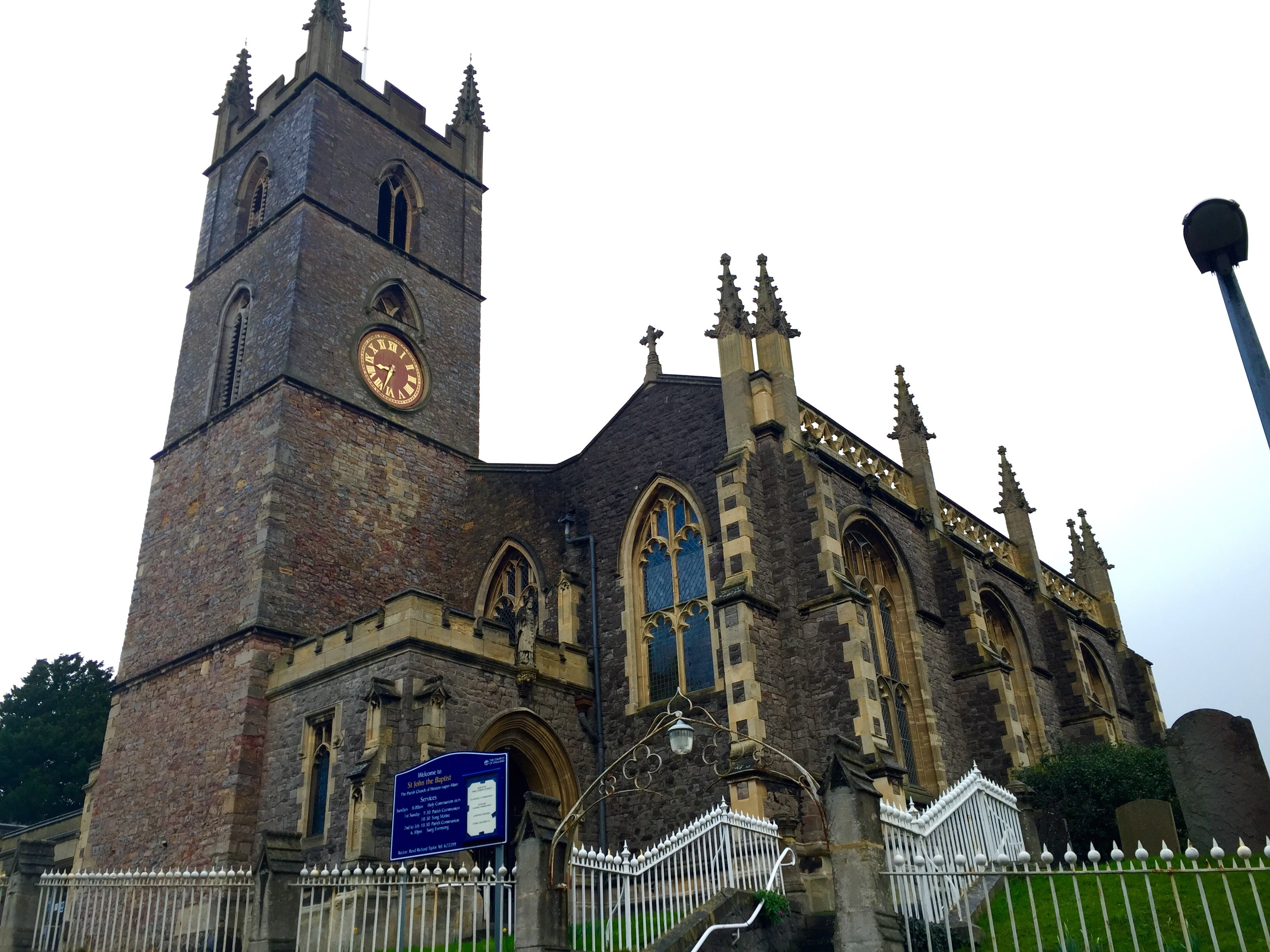 Parish church of St John the Baptist, Lower Church Road, Weston-super-Mare, Somerset, seen from the southwest